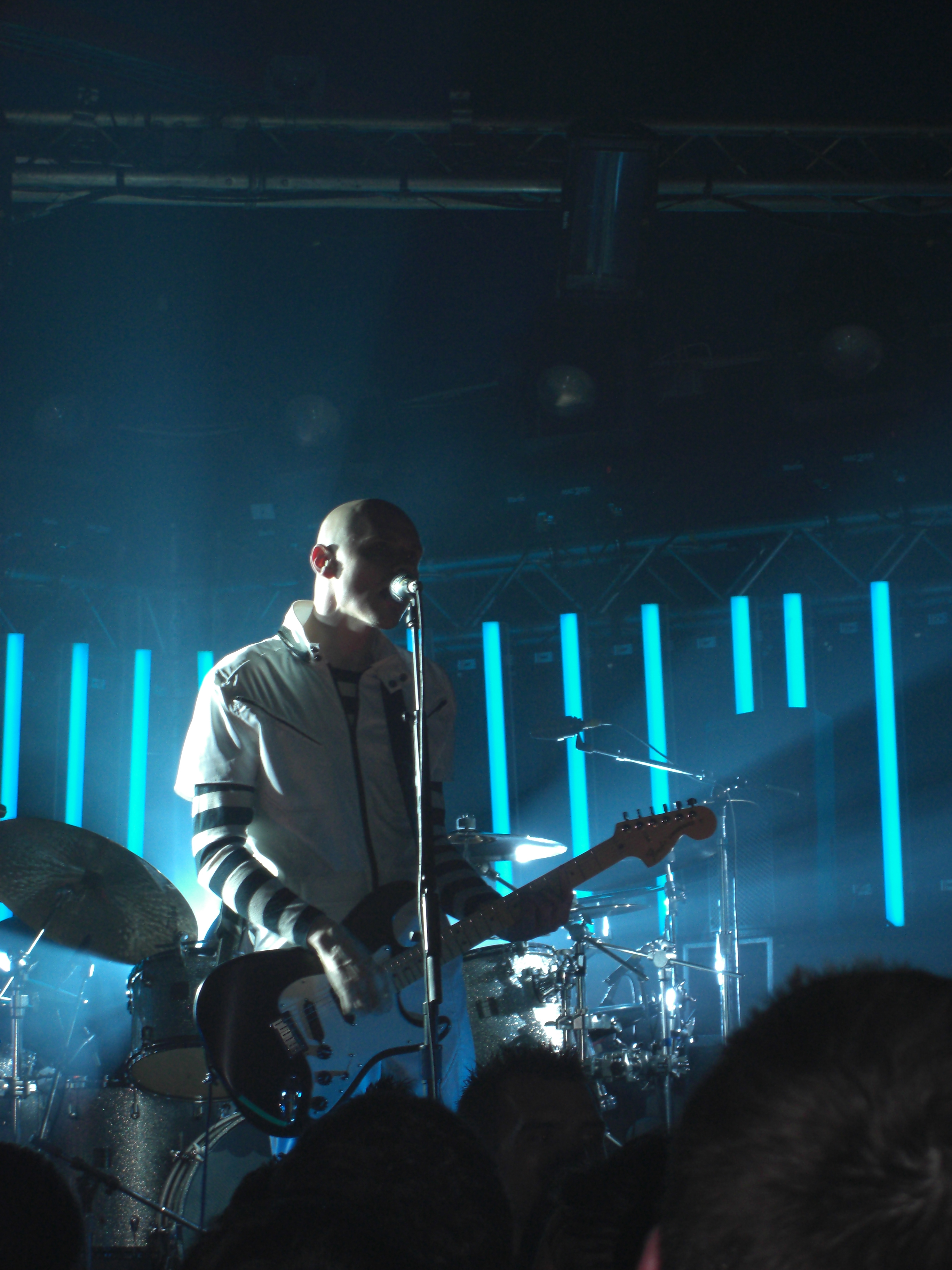 Billy Corgan on May 24th 2007 at "den Atelier",Luxembourg